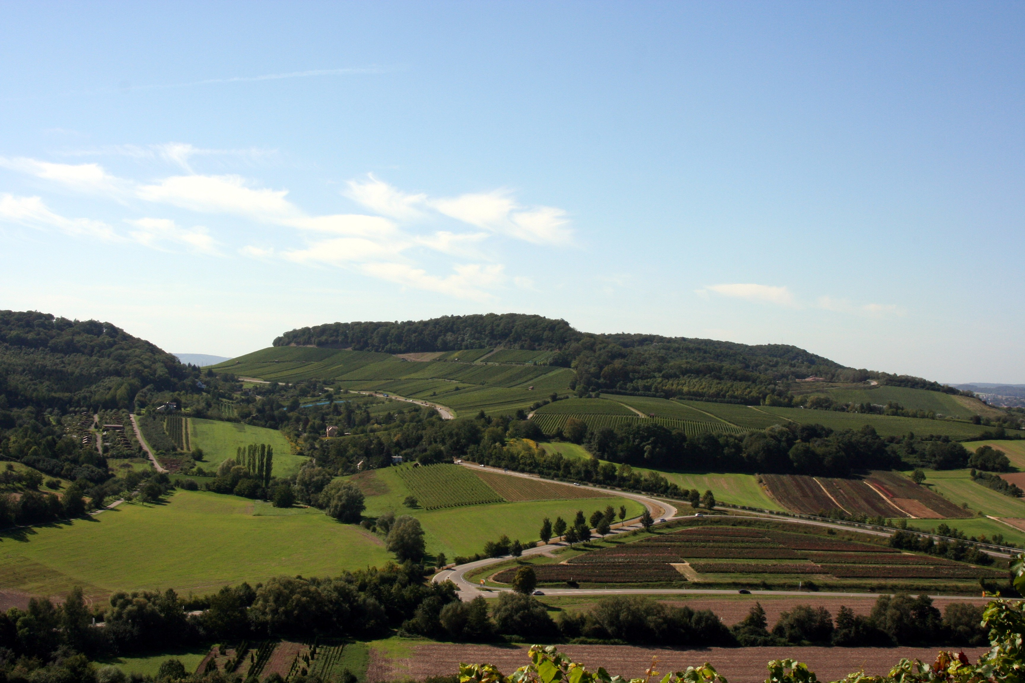 The Wartberg hill in Heilbronn as seen from the Schemelsberg hill in Weinsberg, in the foreground the West of the territory of Weinsberg